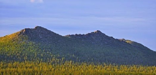 Korvatunturi in summer from southwest, the Finnish side